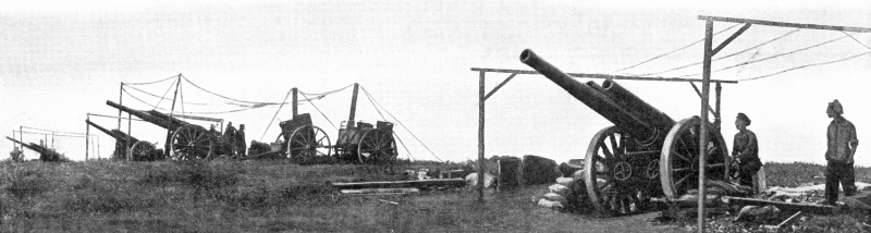 Photograph of a battery of British 60 pounder Mk I guns before Contalmaison, Battle of the Somme.